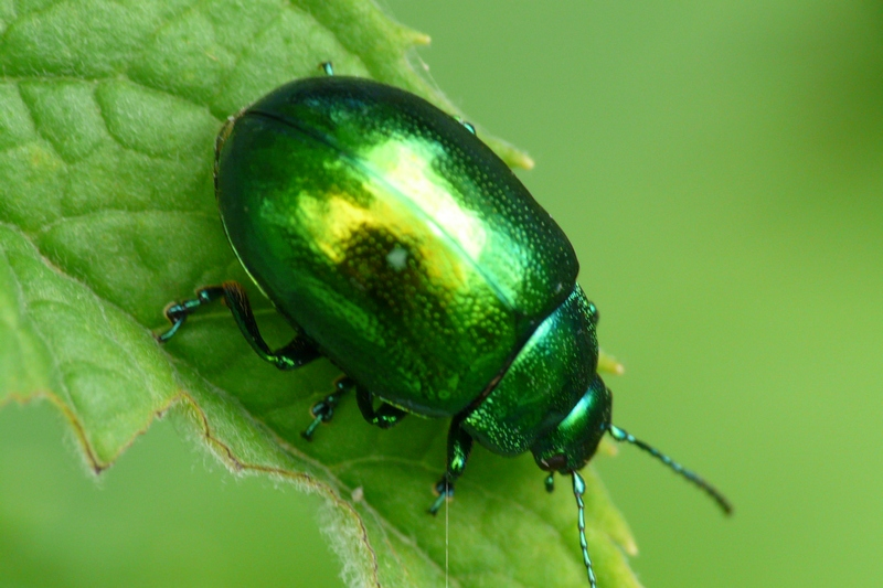 Gastrophysa viridula